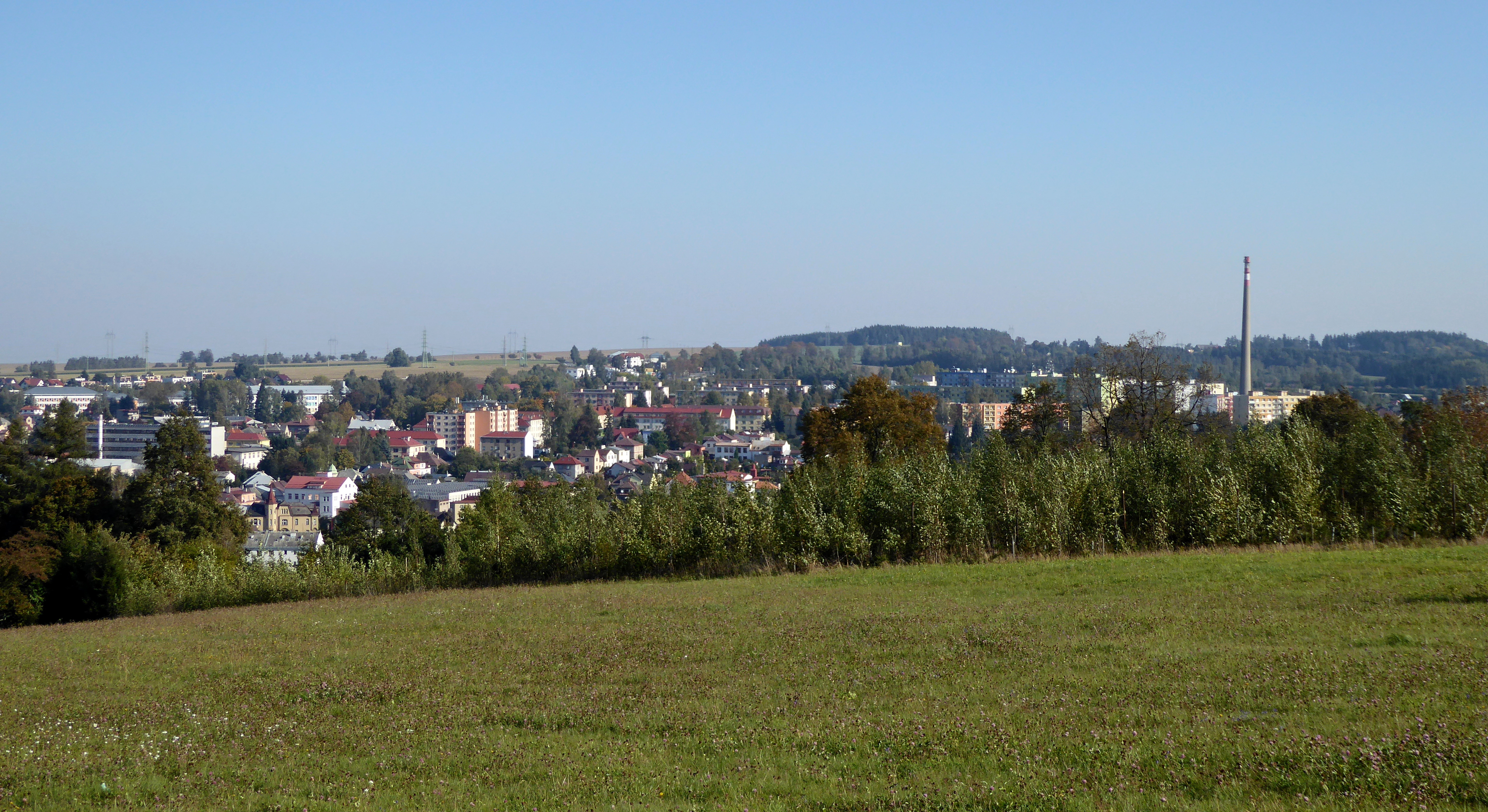 Hlinsko is a town with a total area of 2 426.91 ha and a range of 550-670 m above sea level in the landscape part of the Iron Mountains, in the northern part of the Bohemian-Moravian Highlands. Lies from the point of view of administrative administration in the Chrudim district belonging to the Pardubice Region in the territory of the Czech Republic. The city center lies in the valley of the upper reaches of the river "Chrudimka", a large part of the town on the southwest and western slope of the ridge of the Iron Mountains with peaks "Medkovy" hills (638 m) and "Čertovina" (655 m). Part of town Blatno lies at an altitude of 570 meters at the foot of peak Pešava (697 m). A large part of the cadastral area is located in the Protected Landscape Area of "Žďárské" Hills with a natural monument and a European-important locality of "Ratajské" ponds. Photo-location: Czechia, Pardubice Region, Hlinsko, peak of hill "Na skalce" (636,5 m), "Kameničská" Highlands".